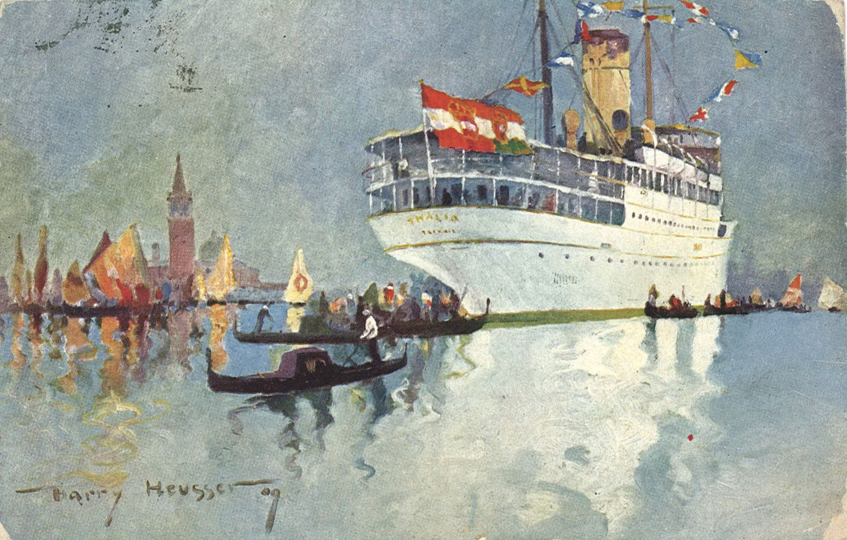 Picture postcard (Austrian Lloyd, ca. 1910, painting: Harry Heusser (+ 1947): SS Thalia in Venice